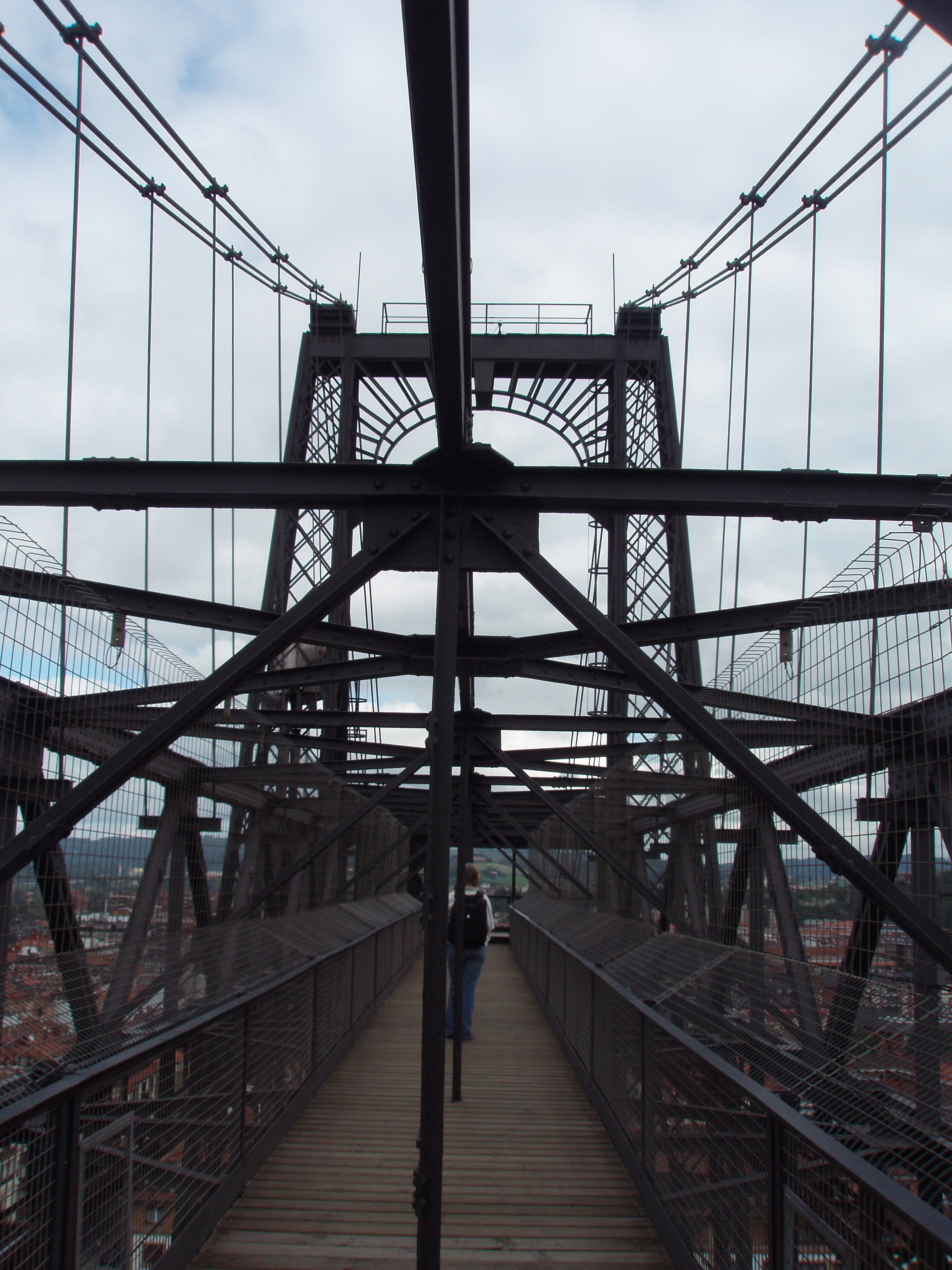 The top part of the Puente Colgante in-between Portugalete and Las Arenas in the Biscay province of Spain